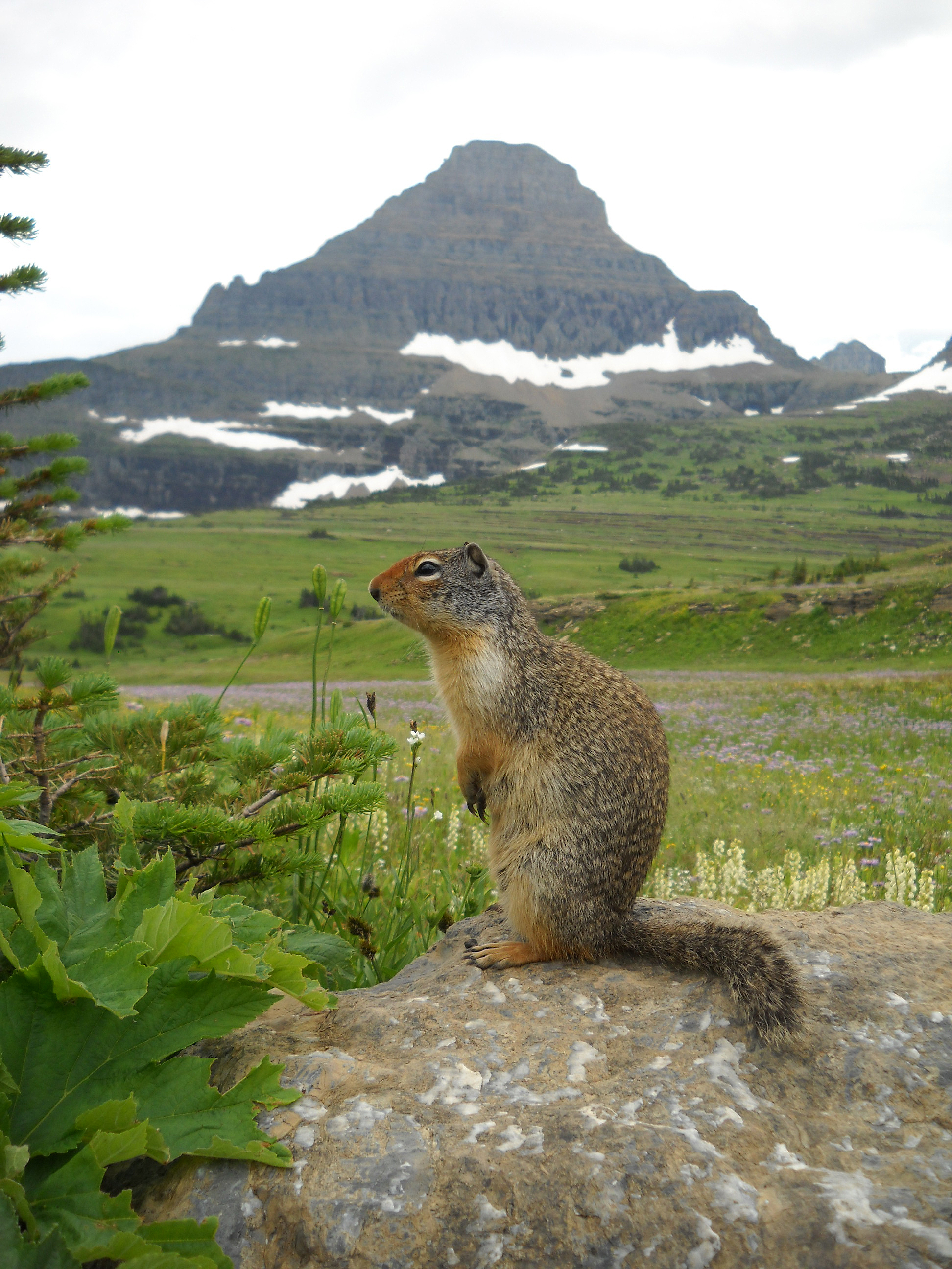 A squirrel poses in front of Mount Reynolds, near Logan Pass in Glacier National Park.